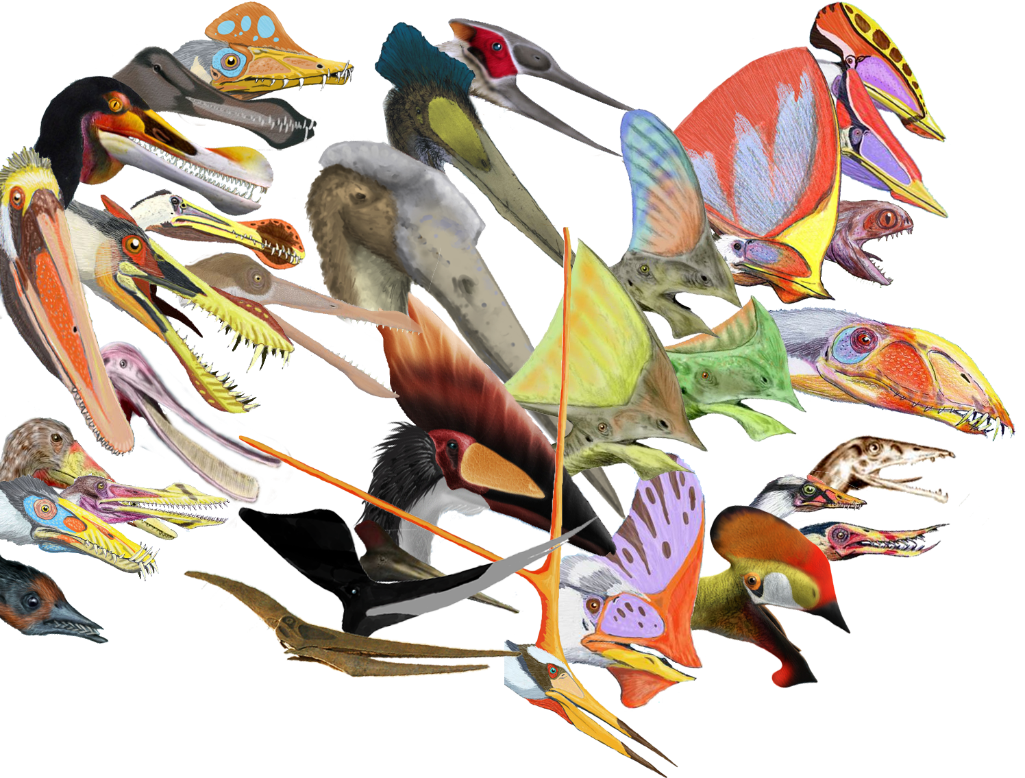 Pterosaurs head crests